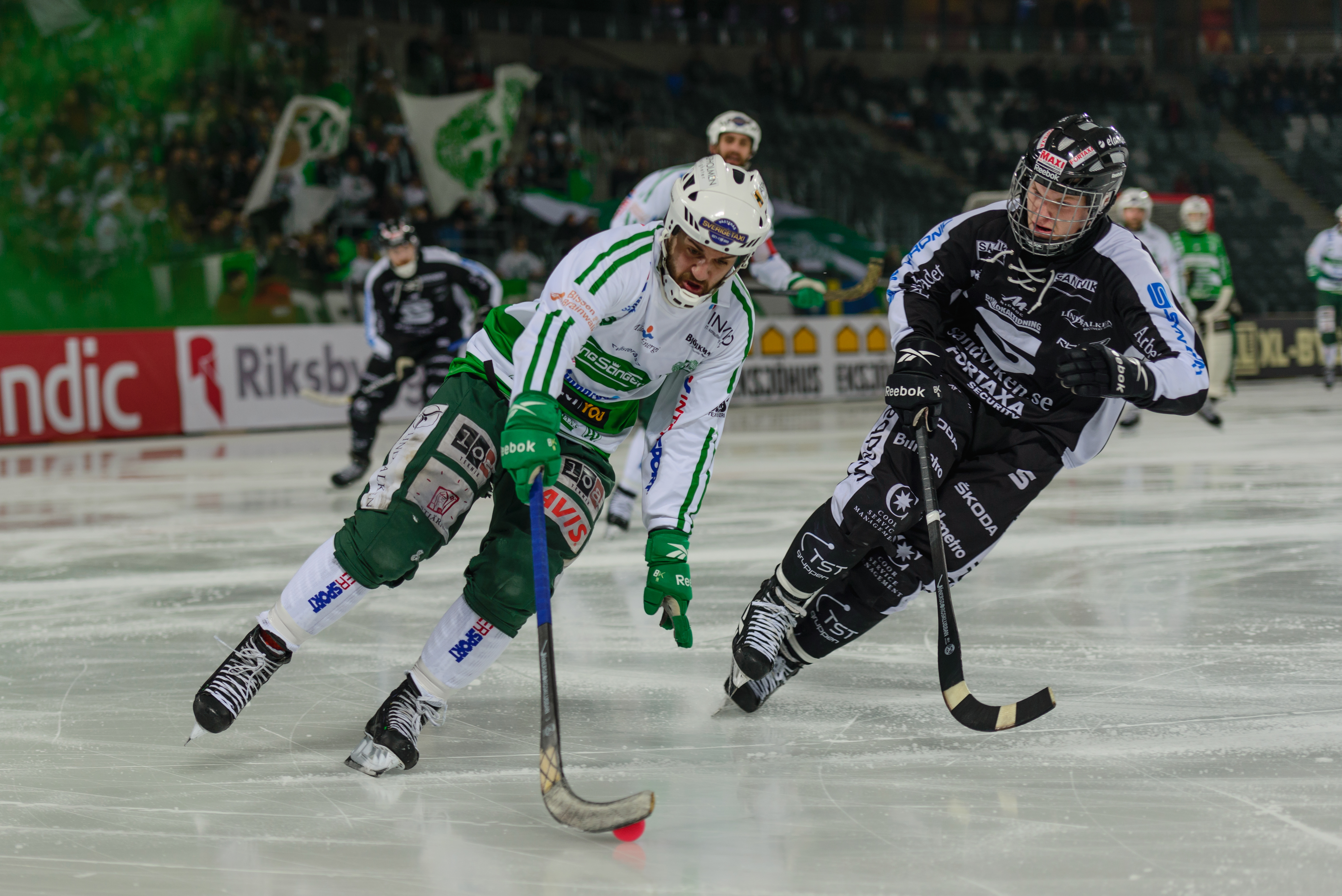 Swedish men's bandy championship final game of 2015, Sandvikens AIK (black)-Västerås SK (green/white) 4-6.